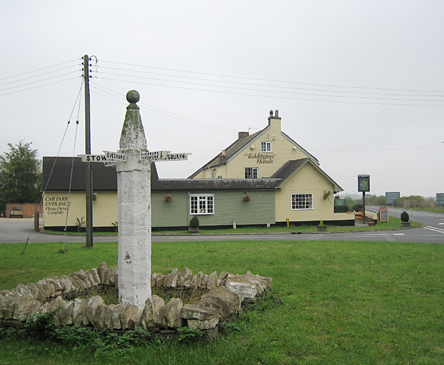 Teddington Hands. Teddington Hands, an ancient sign post pointing in six directions - Stow, Winchcombe, Cheltenham, Tewkesbury, Overbury/Pershore and Evesham. Looking south.